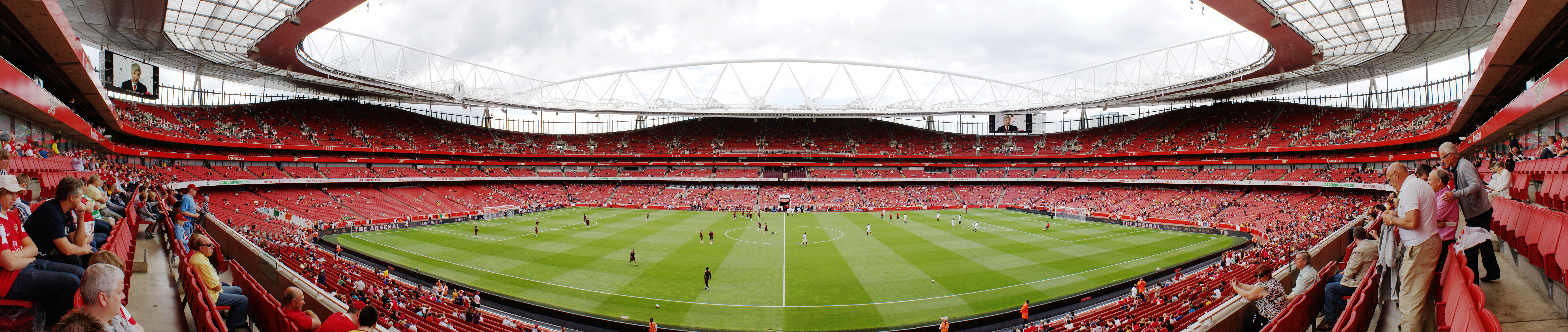 Panoramic of the interior of the Emirates Stadium from the East stand at Club Level. 12 images stitched with Hugin.